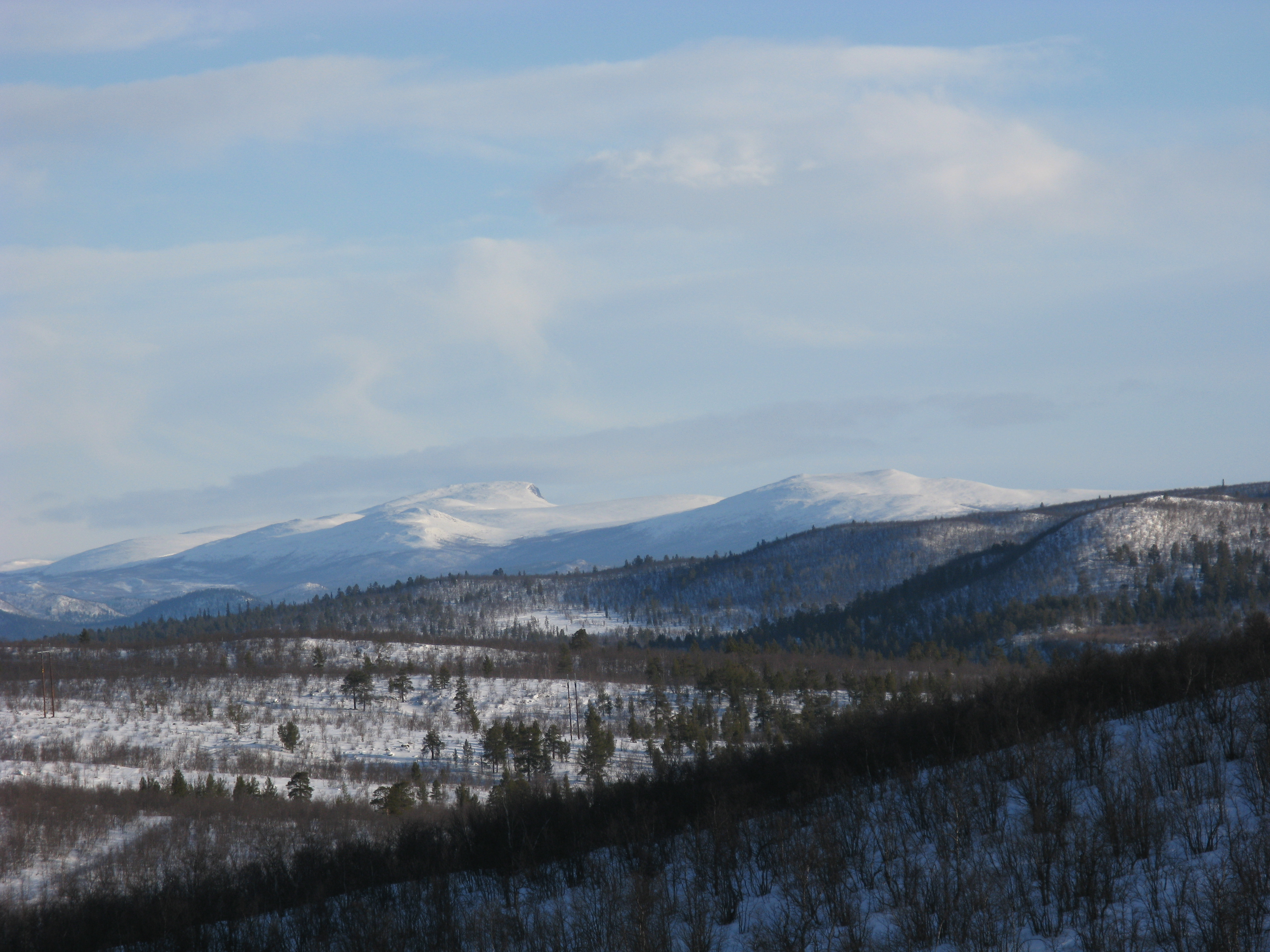 Rágisvárri / Rakisvaara / Rakkistjakko / Raggisvaara / Rakisvare. Seen from Terrassgatan, Kiruna, 40 km south, on a winter morning.